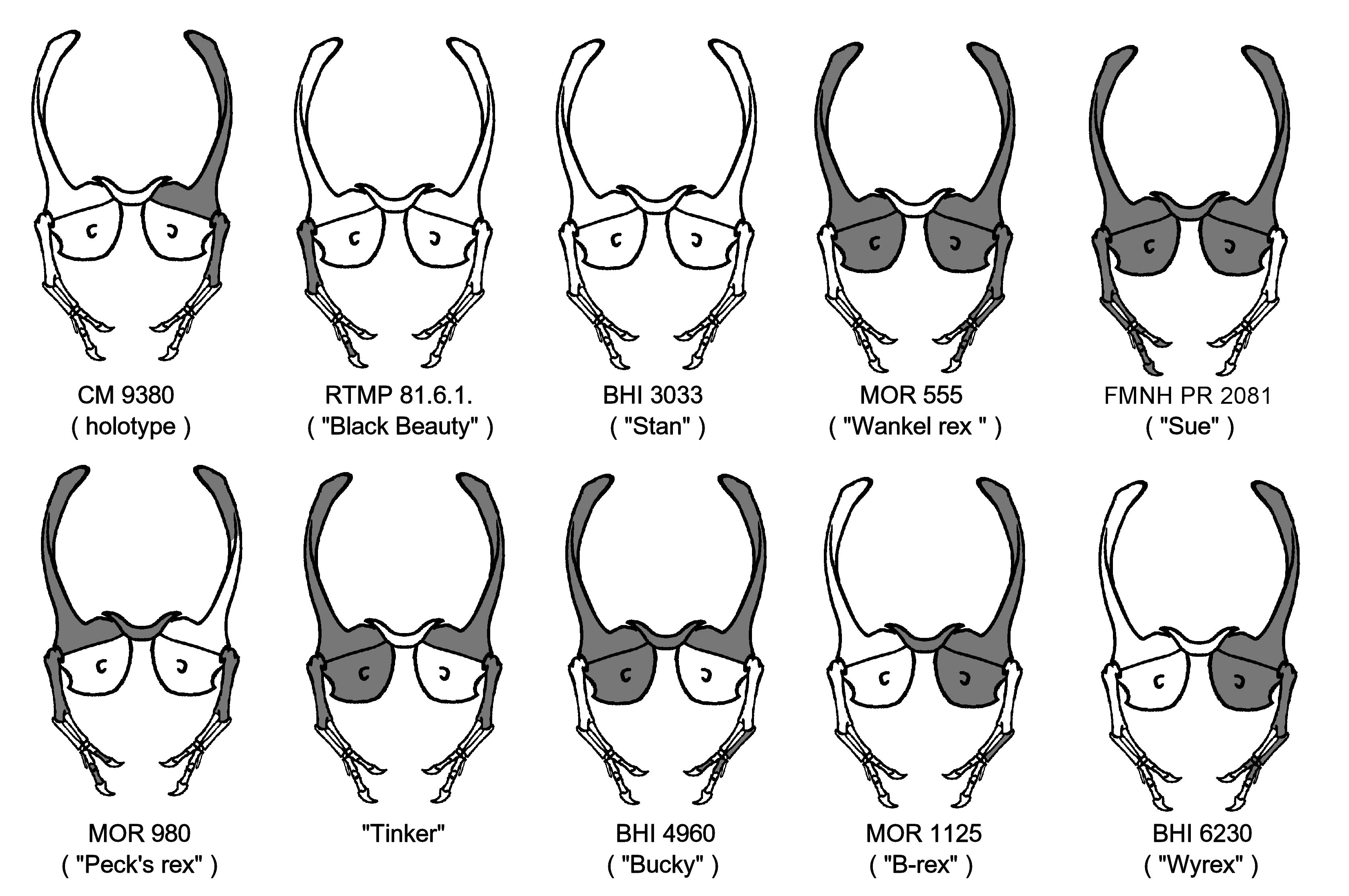 Diagram showing remaining pieces (coloured in grey-brown) in the forelimb elements of different specimens of the theropod dinosaur Tyrannosaurus rex. References The diagram is based on different sources: The forelimb of "Wankel rex" (MOR 555) at Museum Of the Rockies. Diagram of known pieces of "Bucky" (including the forelimbs). Description of the forelimbs from the holotype (CM 9380) at rex. Carpenter K. & Larson P., Tyrannosaurus rex, the tyrant king (Indiana University Press, 2008), Ch. 1: "One Hundred Years of Tyrannosaurus rex: The Skeletons".